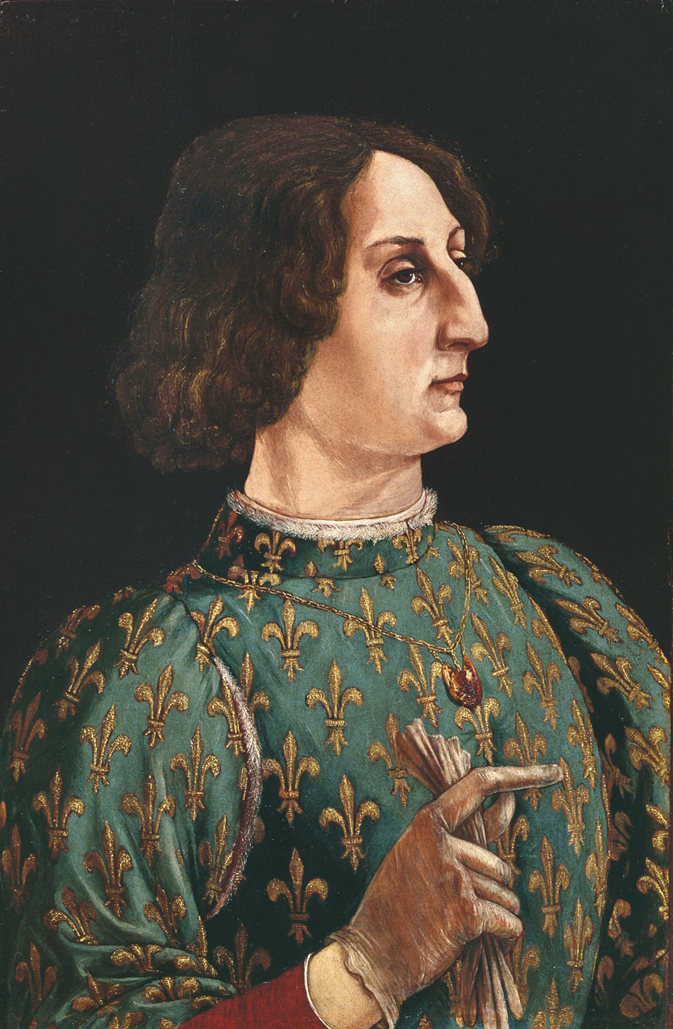 Piero Pollaiuolo (1441-1496) painted this portrait during one of Galeazzo Maria Sforza's visits to Florence. The work is based on a similar portrait by his brother, Antonio. That the portrait is of Sforza is beyond doubt, as copies exist bearing Sforza's name. Restored in 1994.